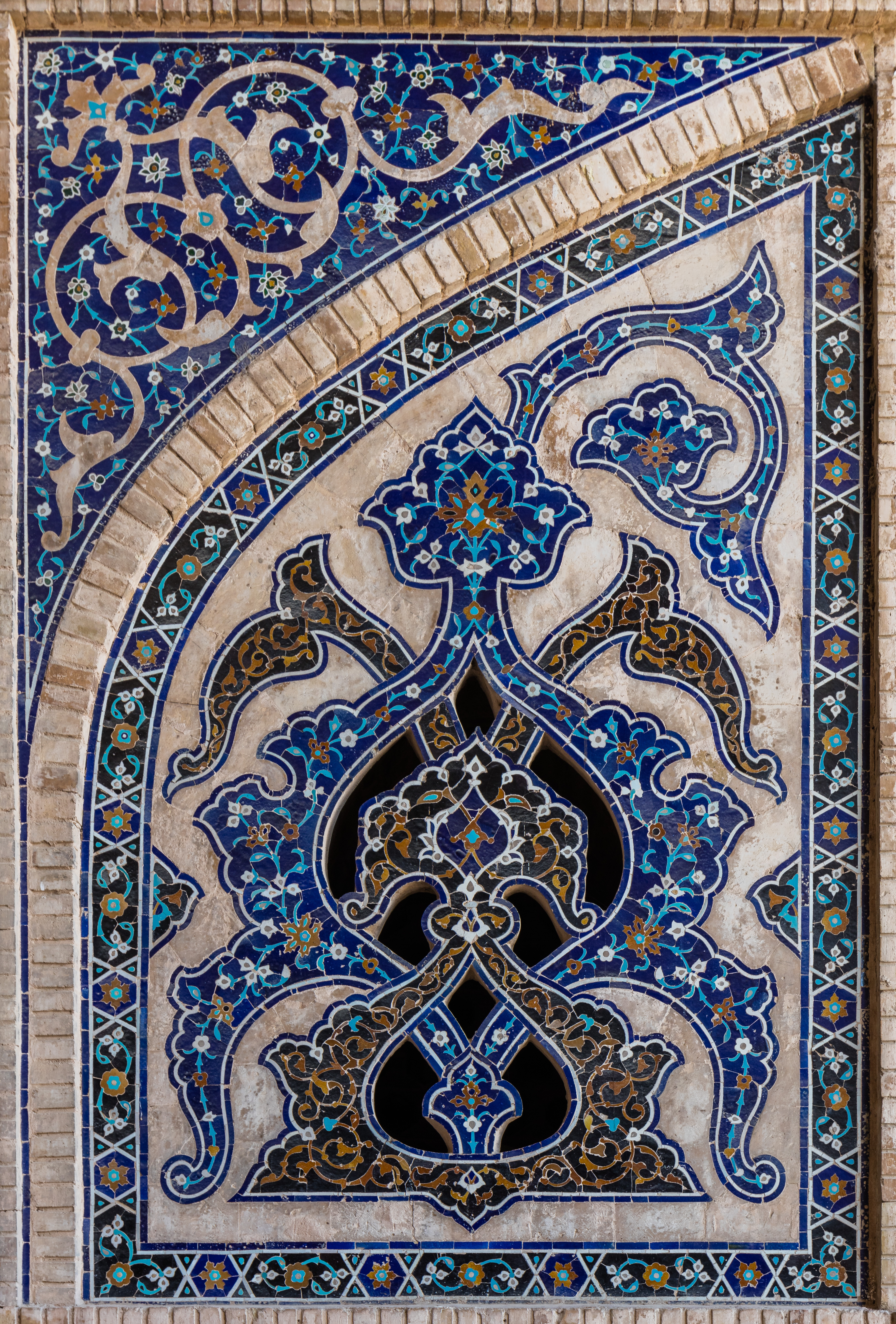 Jameh Mosque of Isfahan, Isfahan, Iran